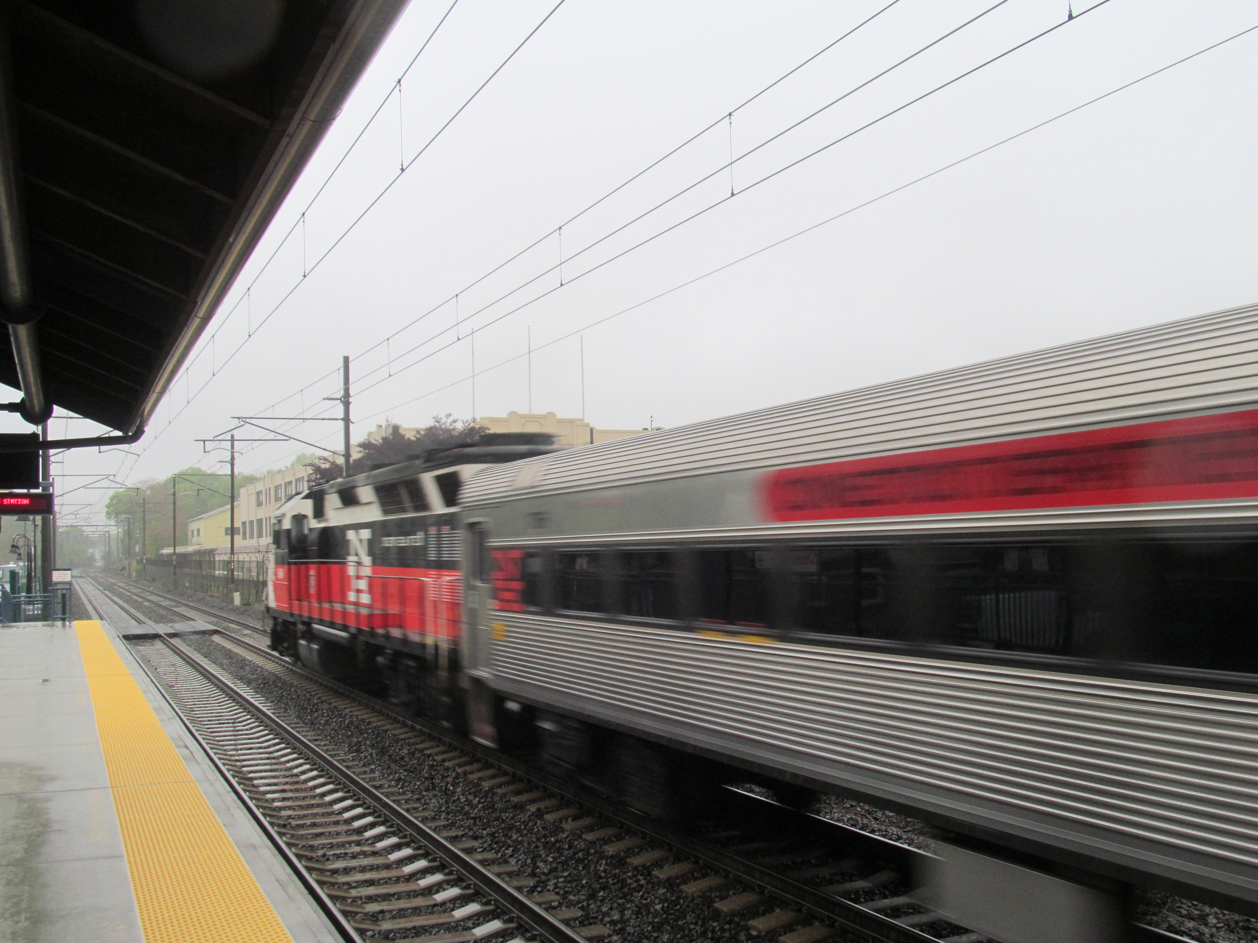 A weekend express train passes the platform at Clinton station